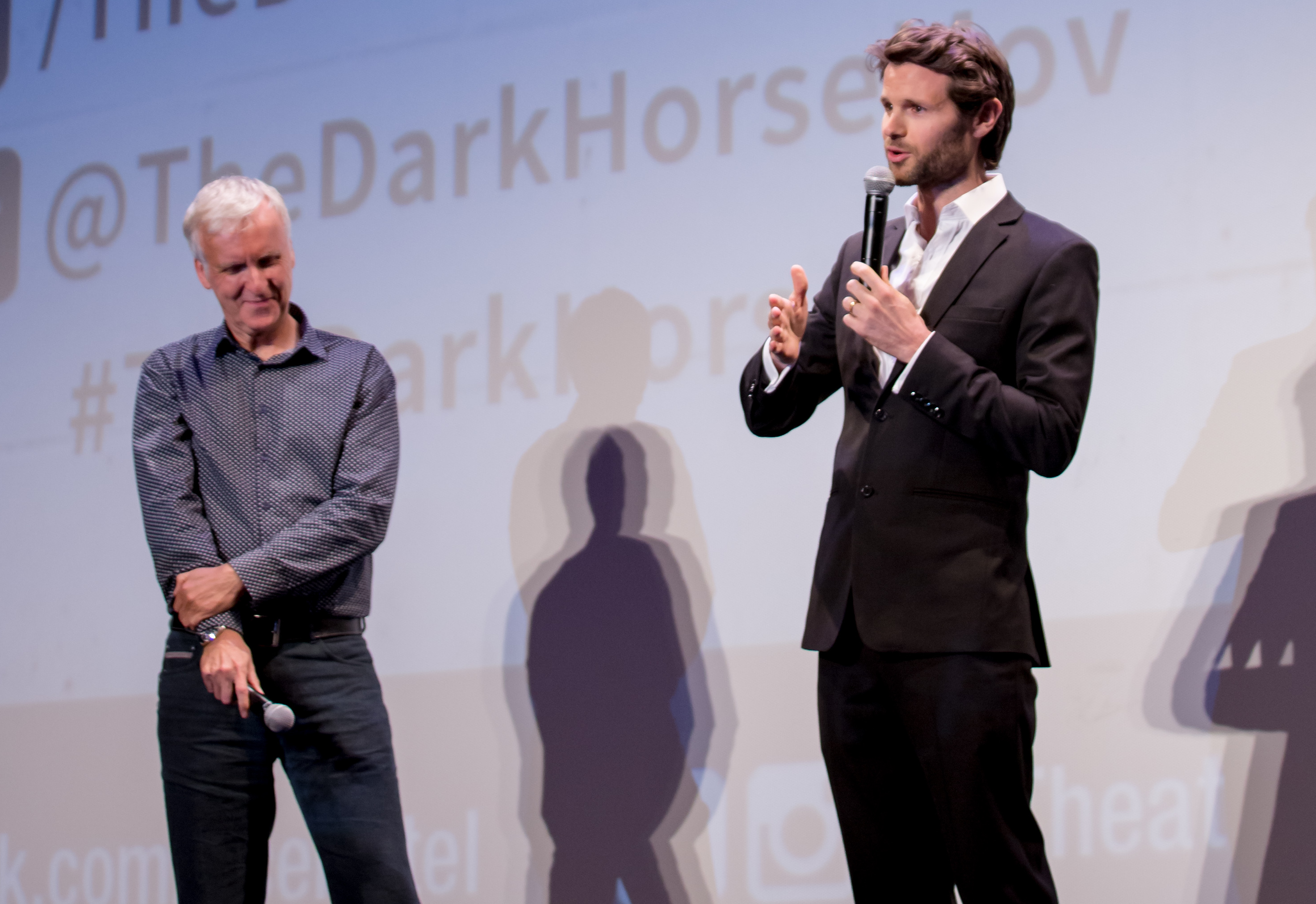 James Cameron and James Napier Robertson speaking at The Dark Horse premiere